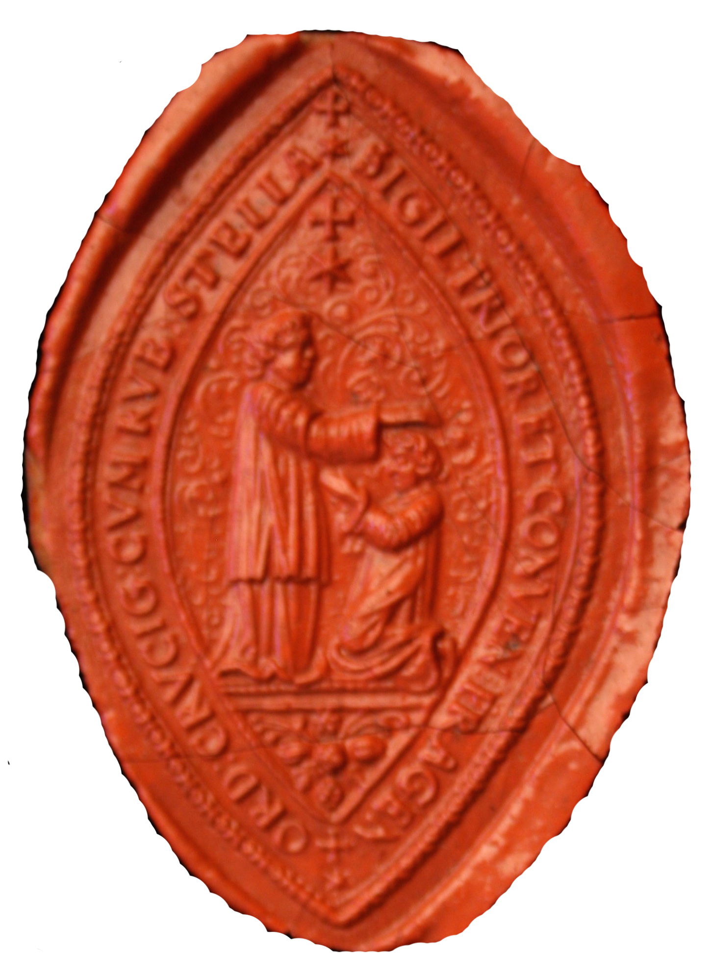 Prague Prior seal of the Order Knights of the Cross with the Red Star; ~ y.1700